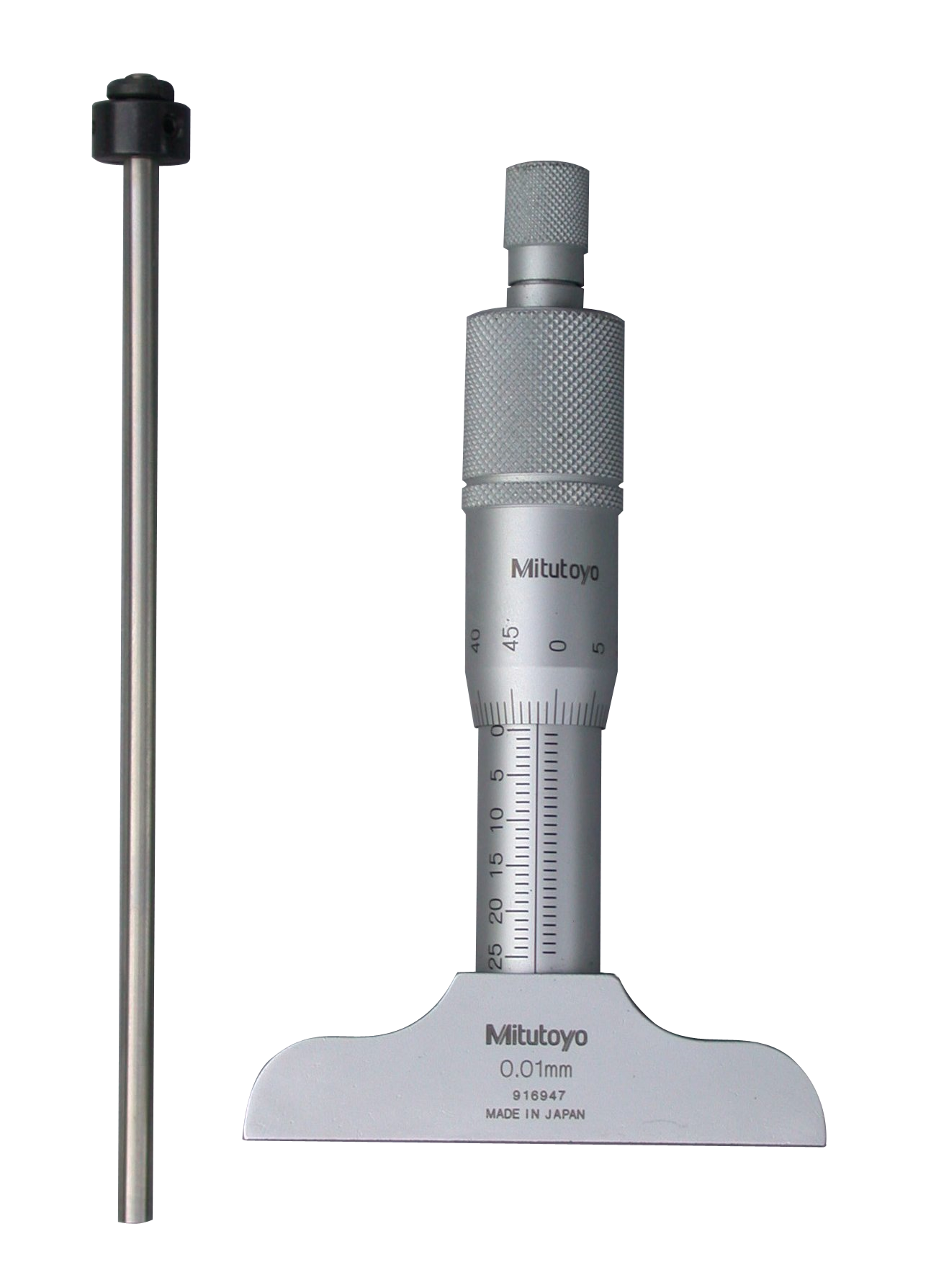 Depth micrometer with an extra probe